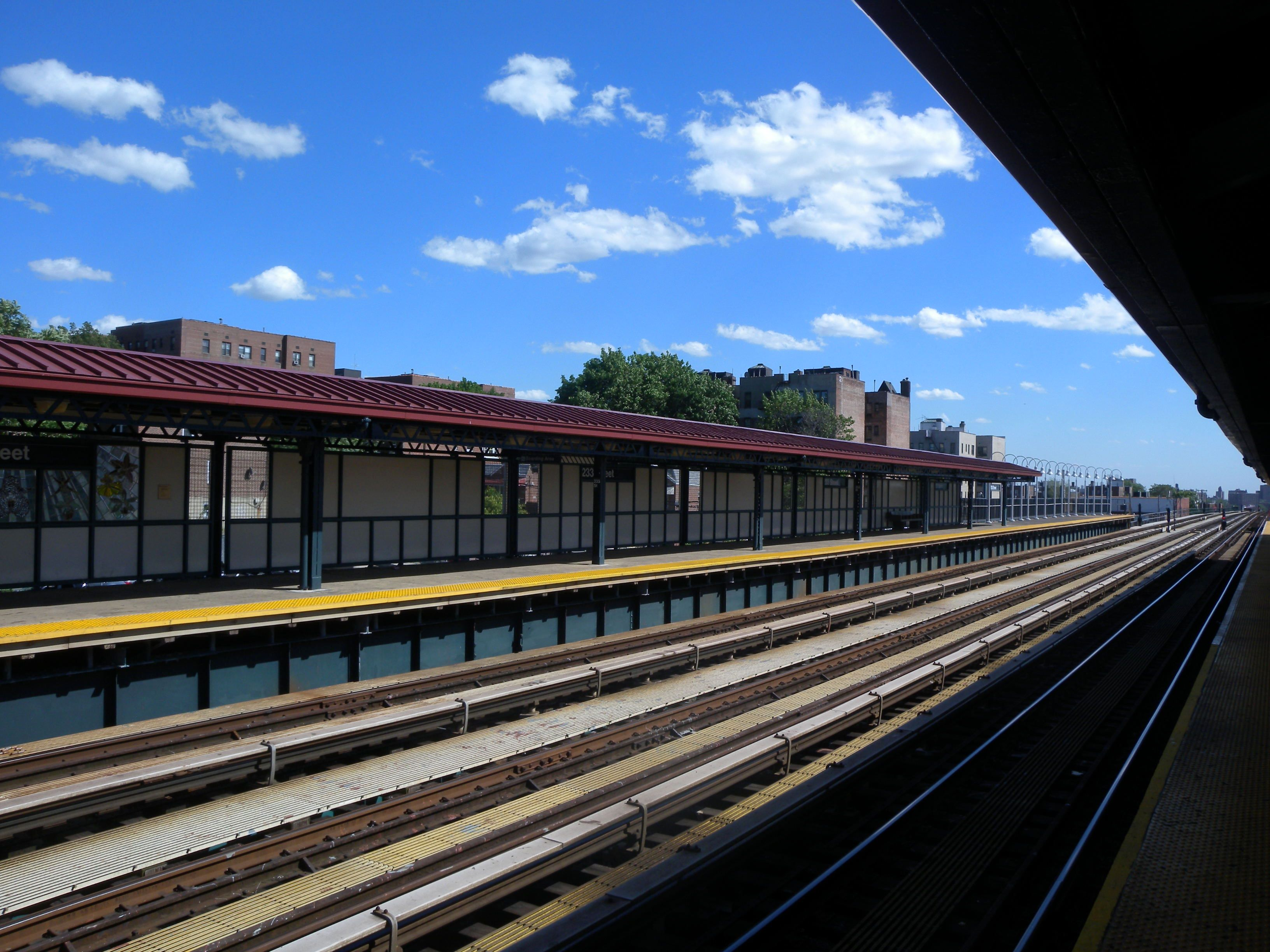 Looking south from 233 St southbound platform of White Plains Rd line on a sunny afternoon.